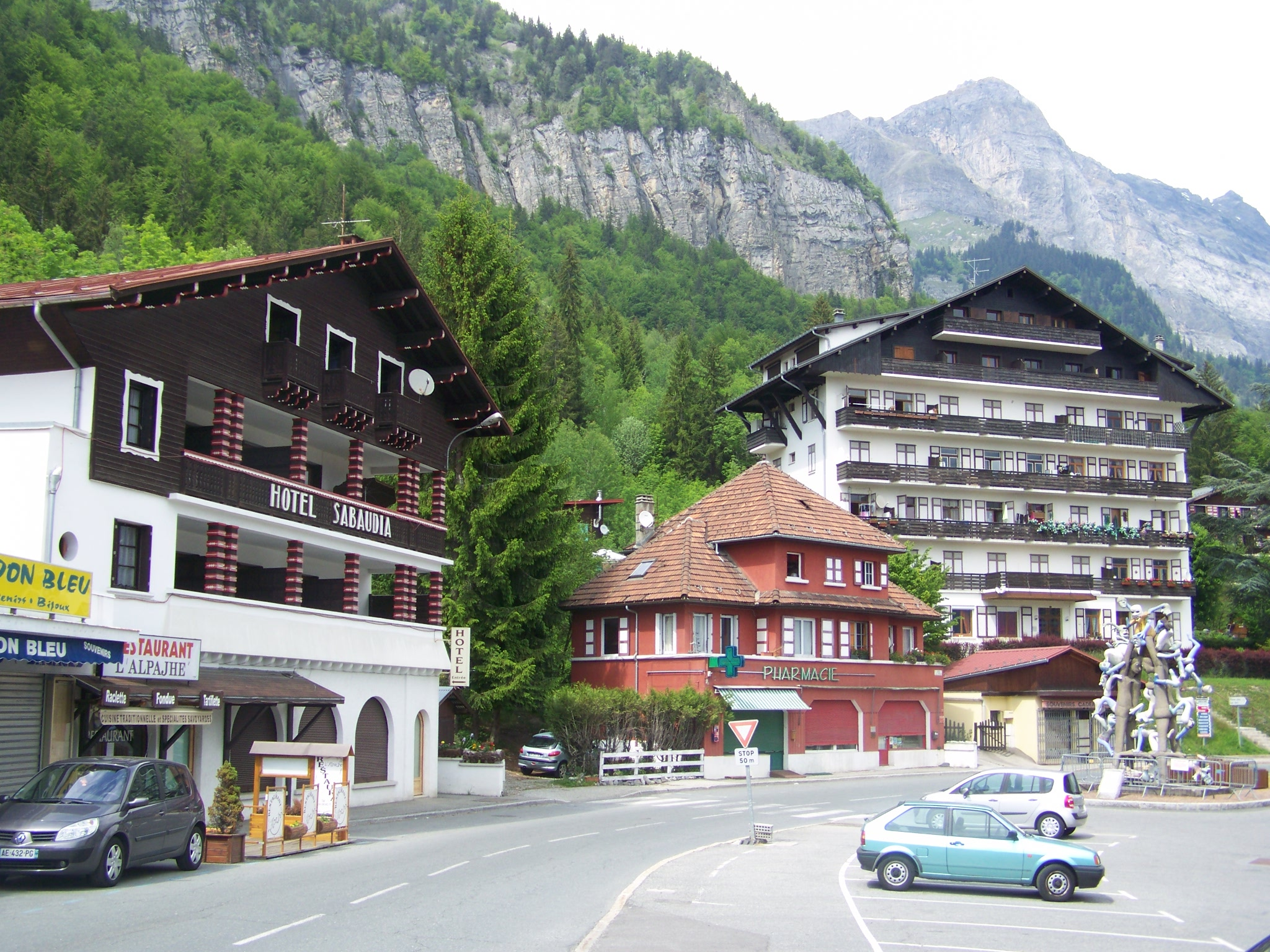 Sight on the main street of Plateau d'Assy in the French Alps of Haute-Savoie.